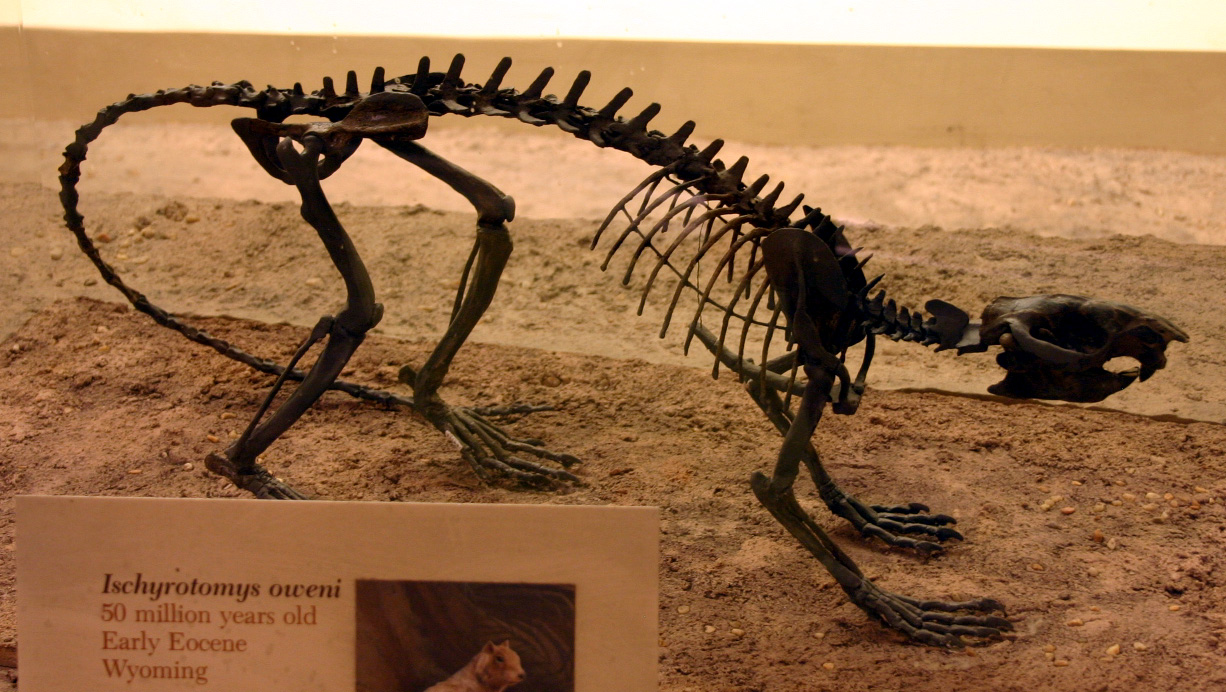 Ischyromys oweni, Smithsonian National Museum of Natural History: Hall of Fossils.